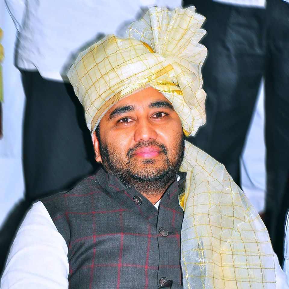 Haji Arfat Shaikh